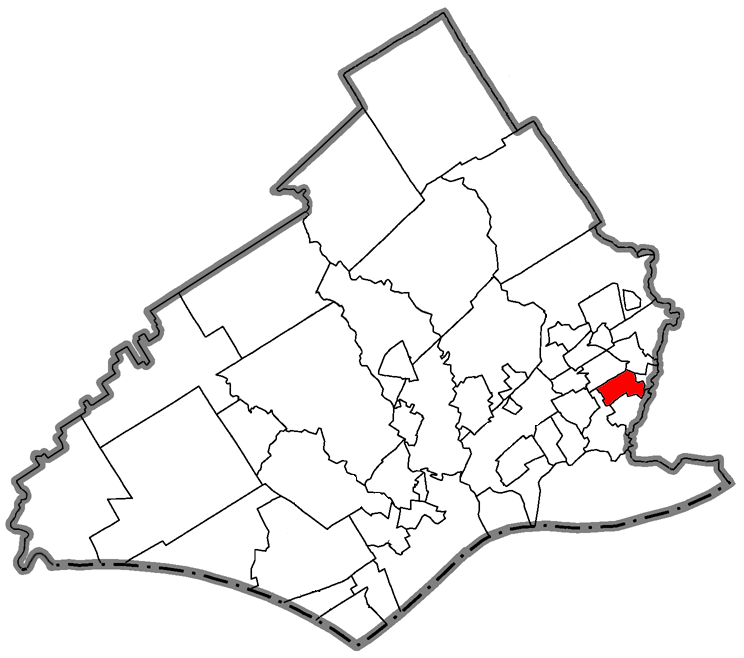 Showing the location within Delaware County, Pennsylvania.